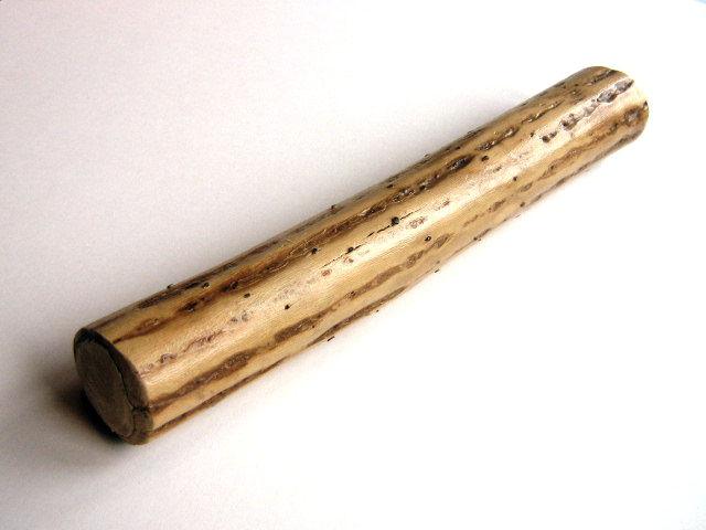 Traditional Style Rainstick